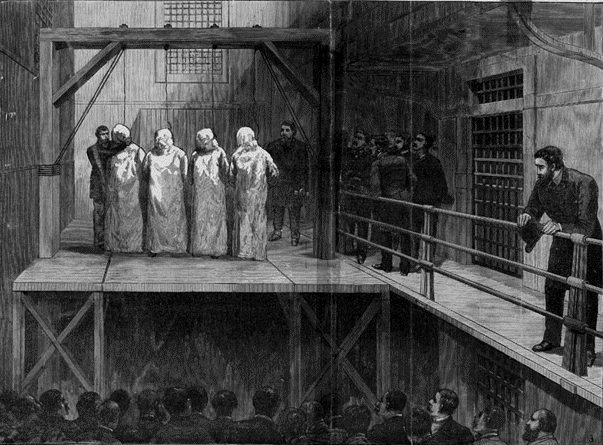 Four of the Chicago anarchists being hanged in Cook County Jail.